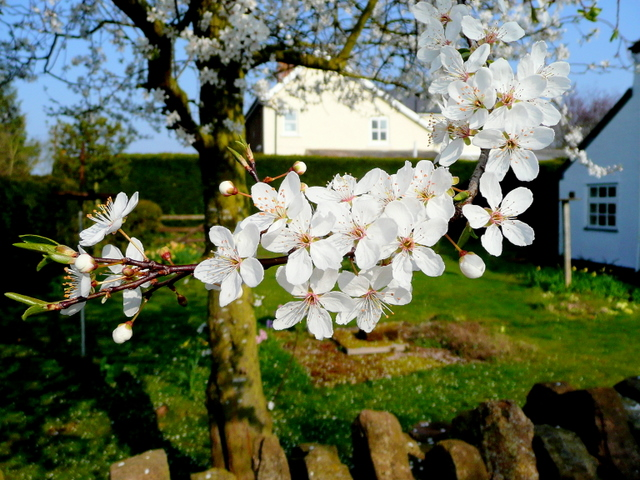 Plum blossom on the first day of spring. Later on this glorious spring day the petals began to fall like confetti.